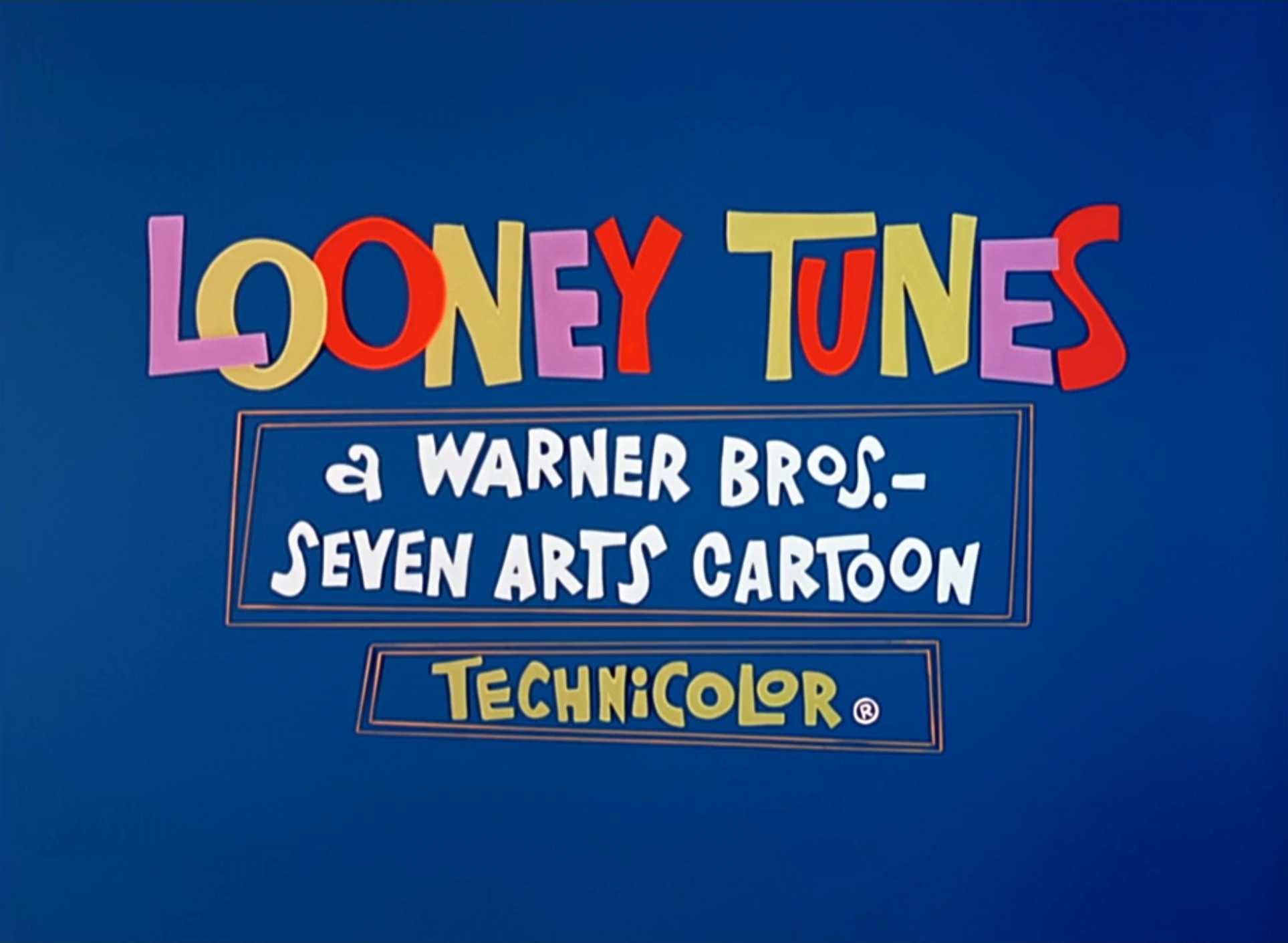 The title card of the Looney Tunes opening Title card from 1967-1969.